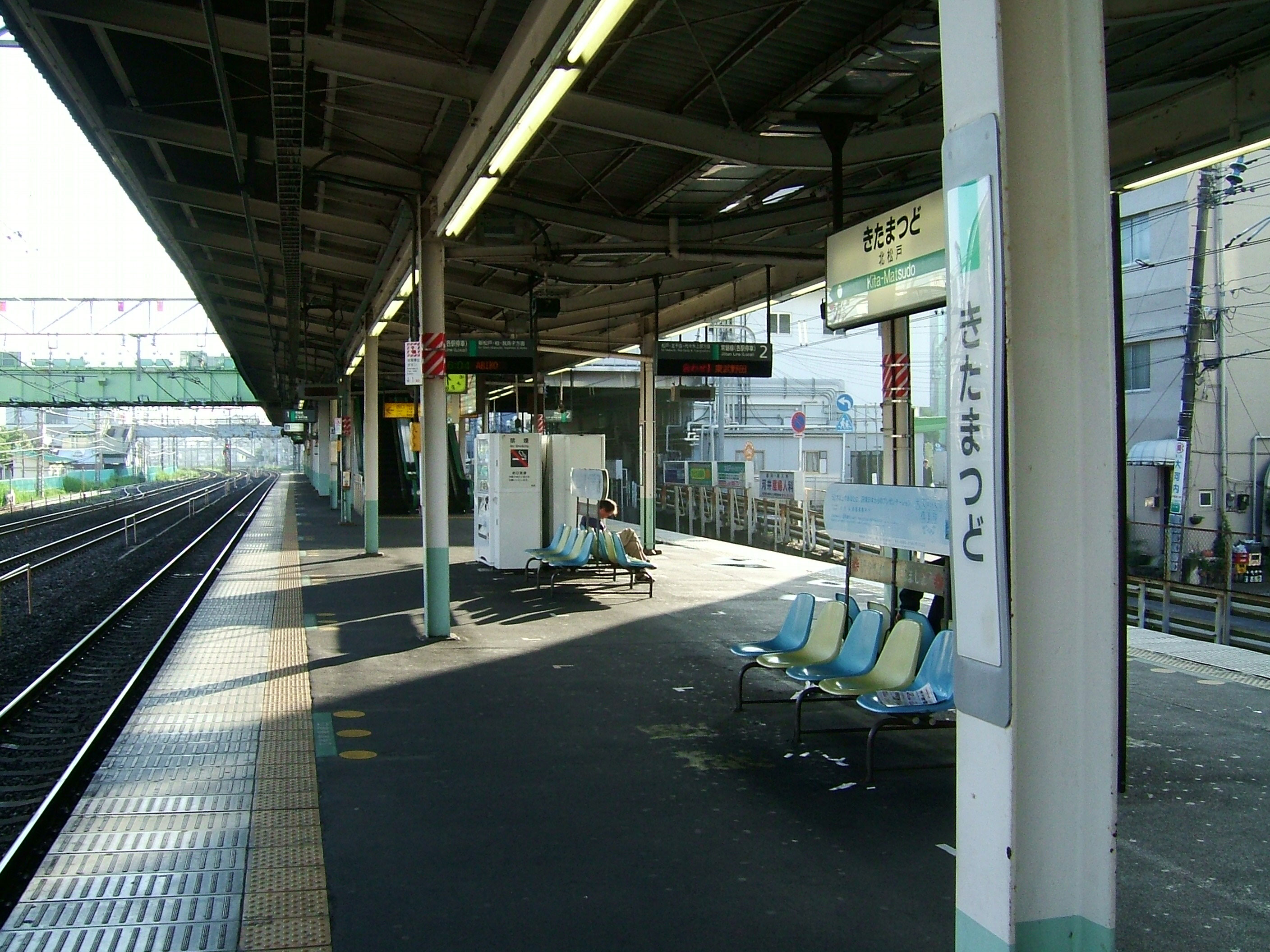 Kita-Matsudo Station platform (East Japan Railway Jōban Line)